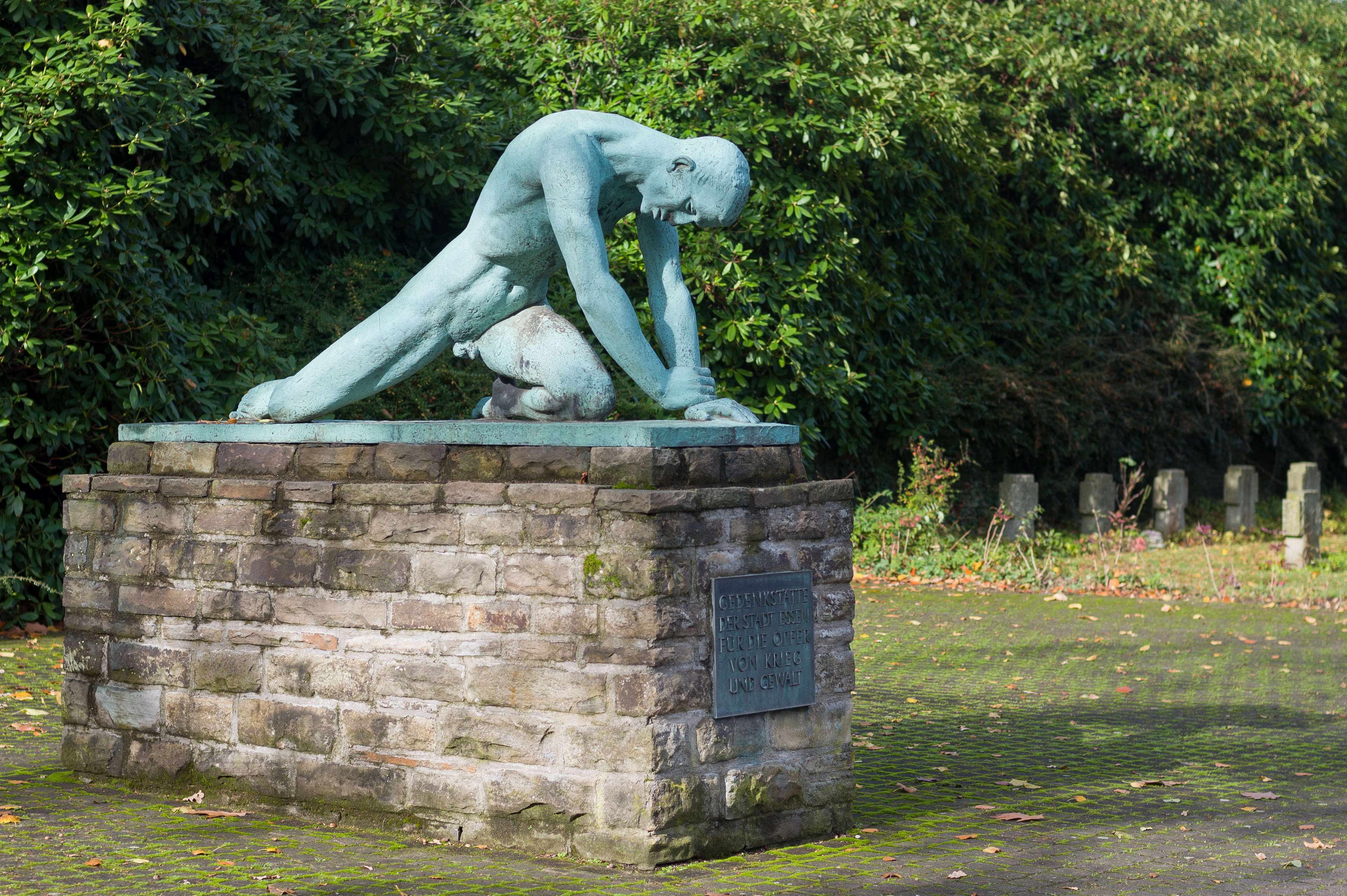 Scuplture Dolefulness ("Trauer) by Joseph Enseling at the south-west cemetery in Essen